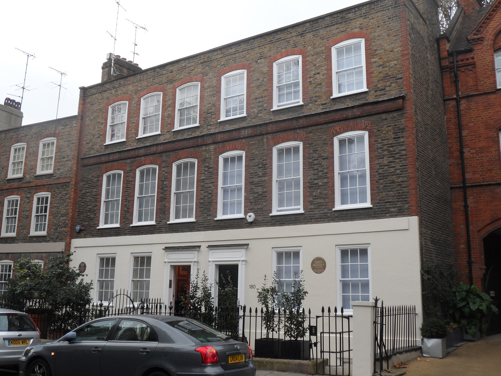 WOLFGANG AMADEUS MOZART 1756-1791 composed his first symphony here in 1764